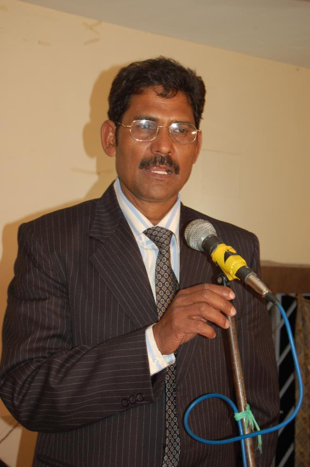 This is a photograph of Faheem Jogapuri